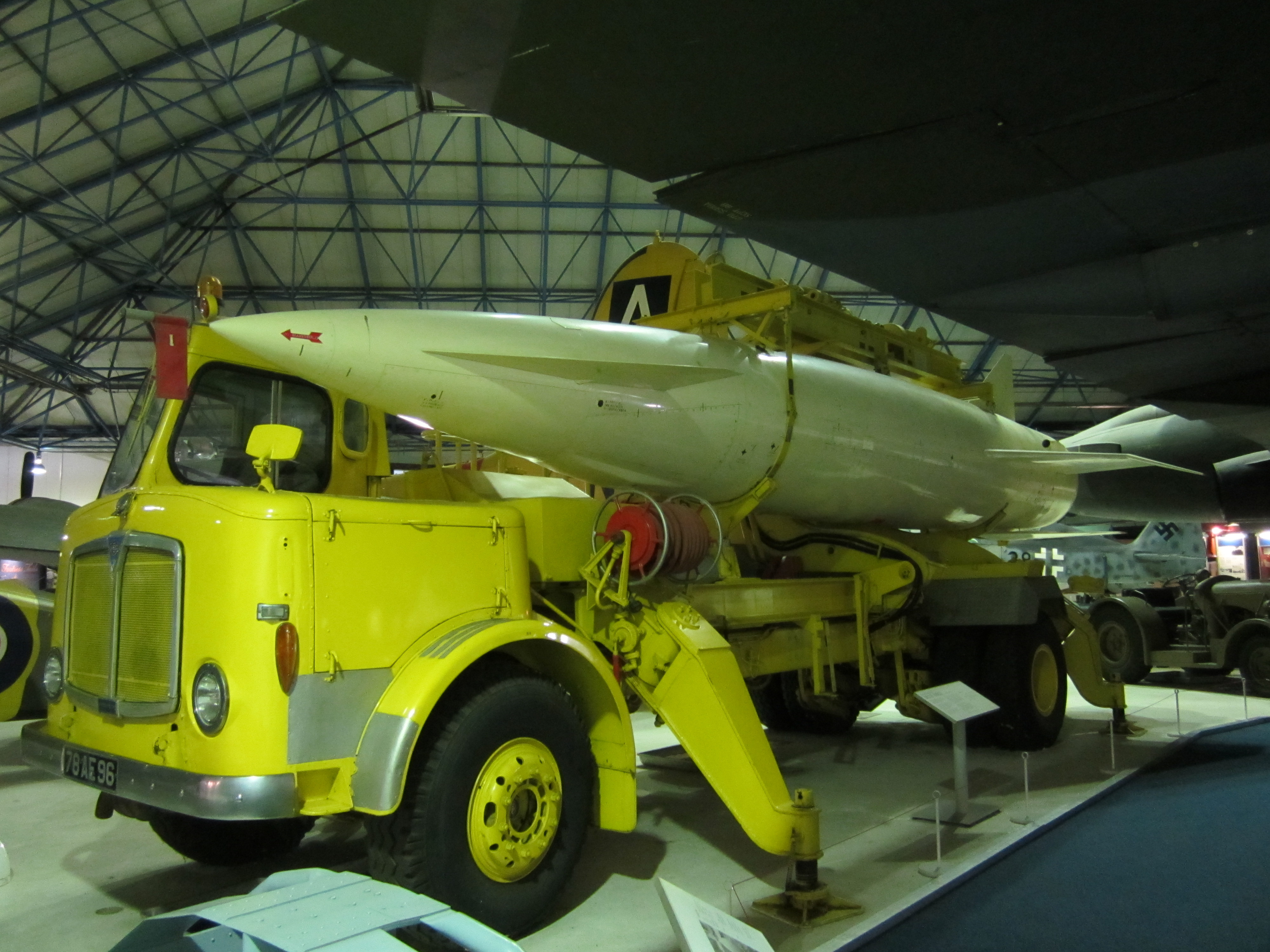 A Blue Steel nuclear missile on a Mandator carrier at the Royal Air Force Museum, London